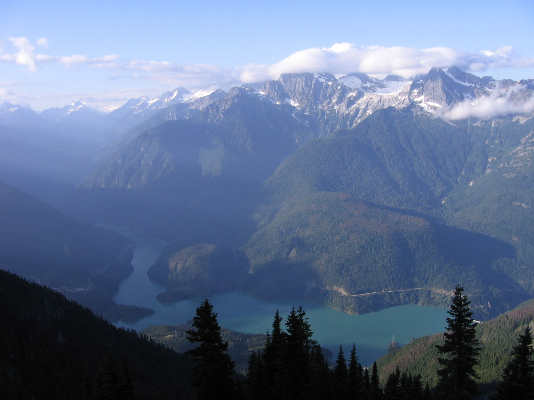 photo taken by Matt Ashman from Sourdough Mountain, August 2005